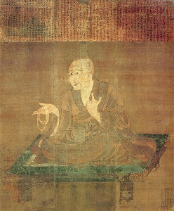 Portrait of Buddhist monk Gonsō (絹本著色勤操僧正像 kenpon chakushoku gonsō sōjō zō). Hanging scroll, colors on silk, 166.4 × 136.4 cm (65.5 × 53.7 in). Located at Fumon-in (普門院), Mt. Kōya, Wakayama. The scroll has been designated as National Treasure of Japan.